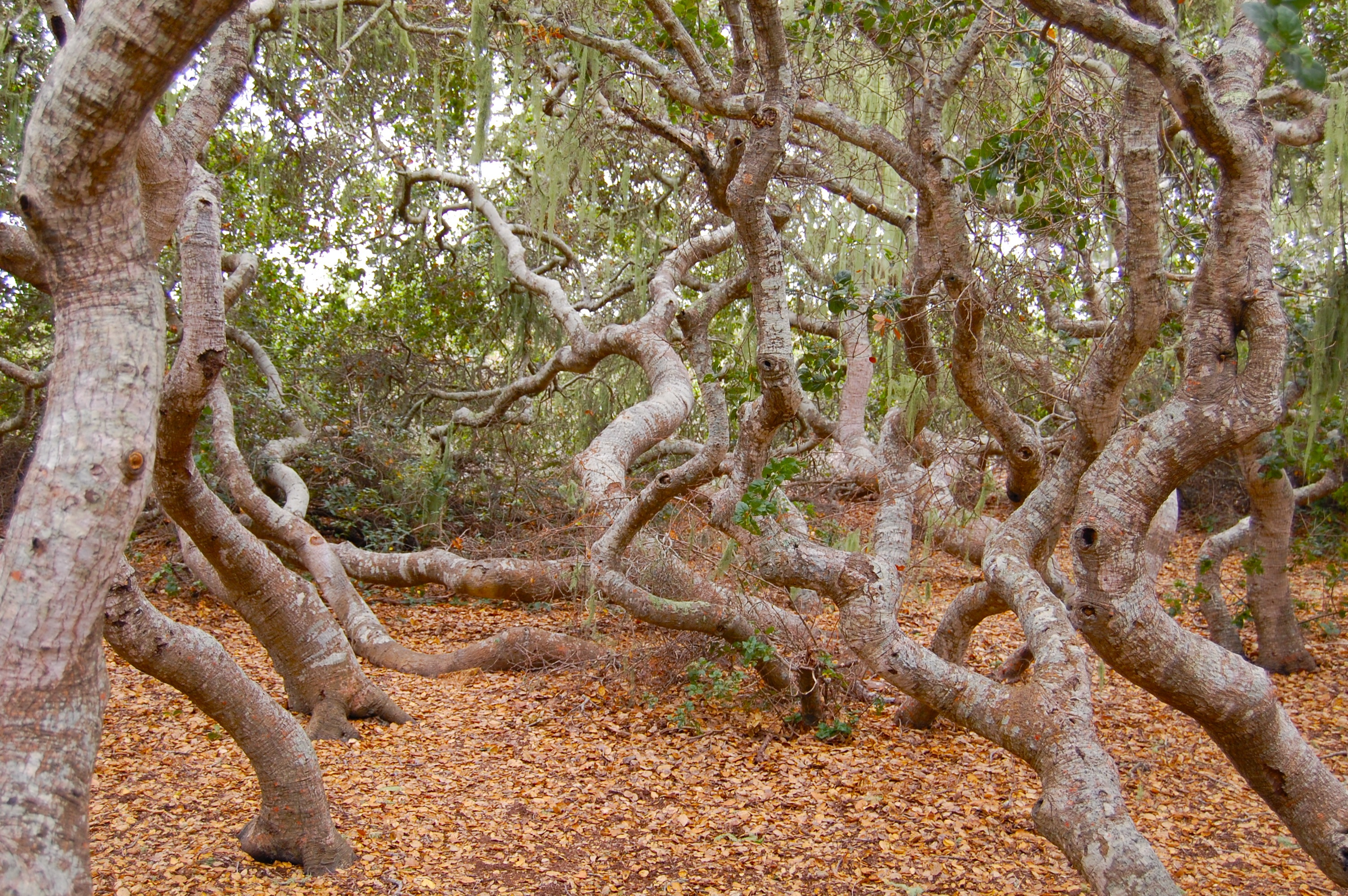 pygmy oak forest on Morro bay estuary